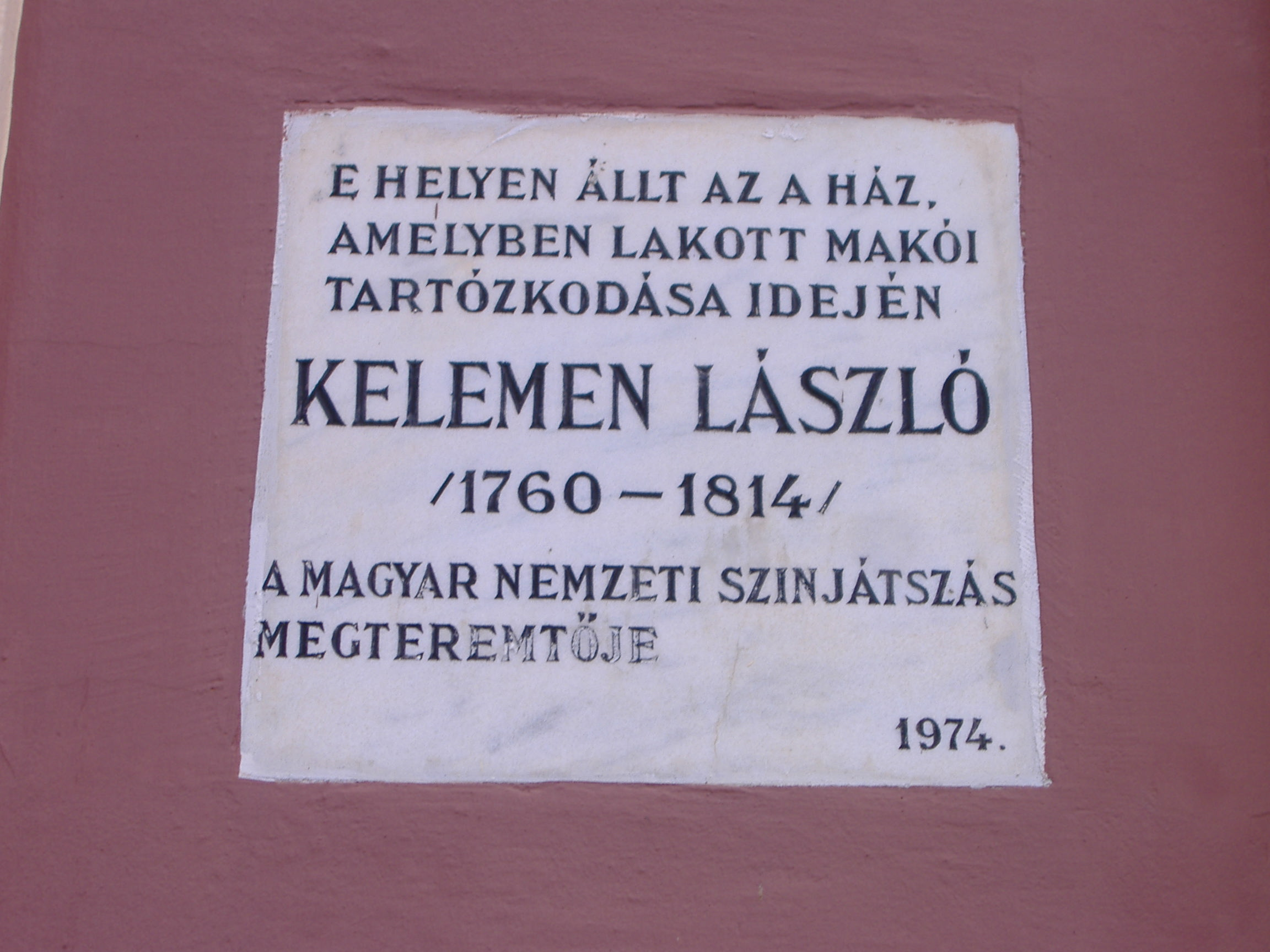 Memorial tablet of László Kelemen in Makó, Hungary, commemorating to the founder of the Hungarian acting.